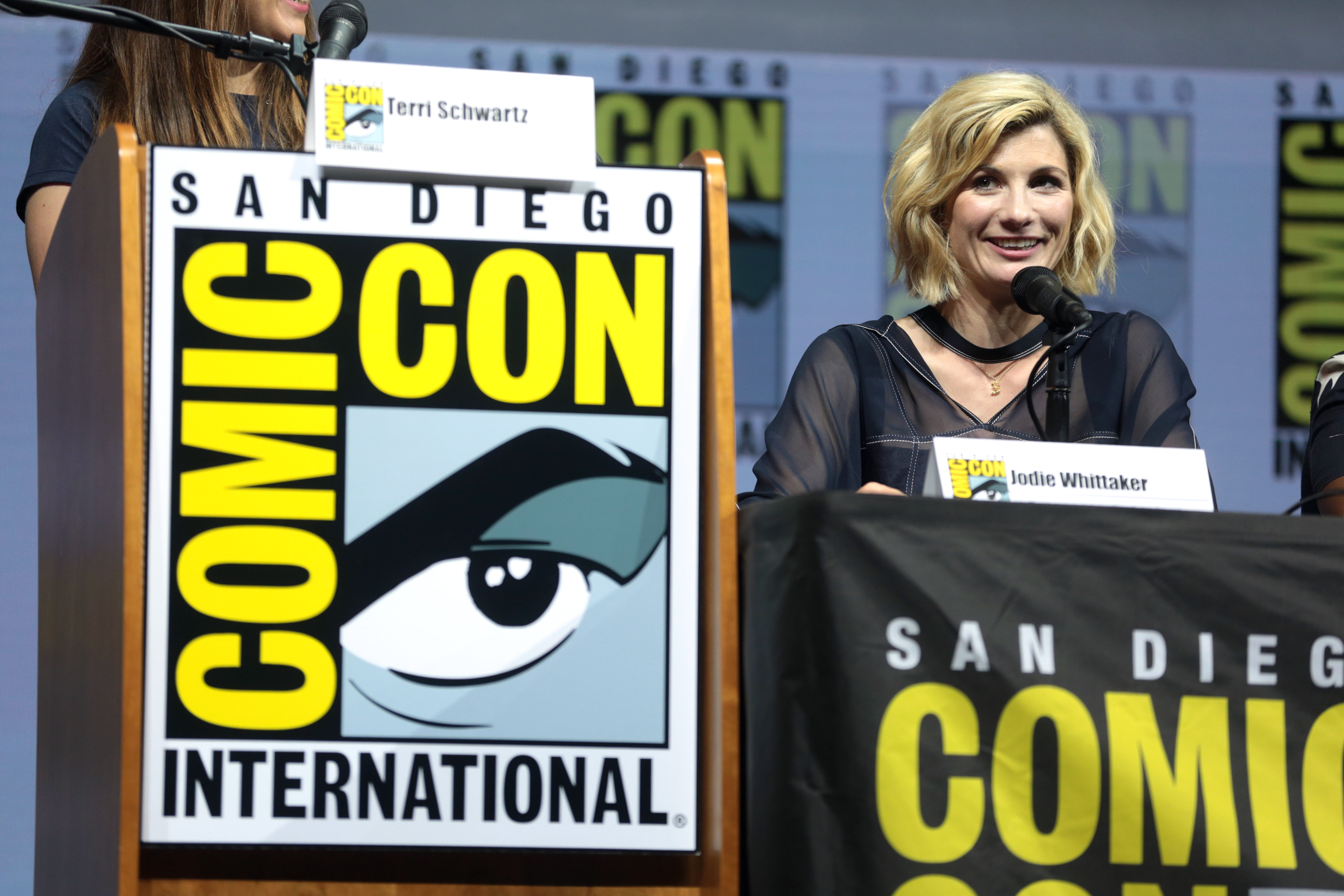 Jodie Whittaker speaking at the 2018 San Diego Comic Con International, for "Doctor Who", at the San Diego Convention Center in San Diego, California.